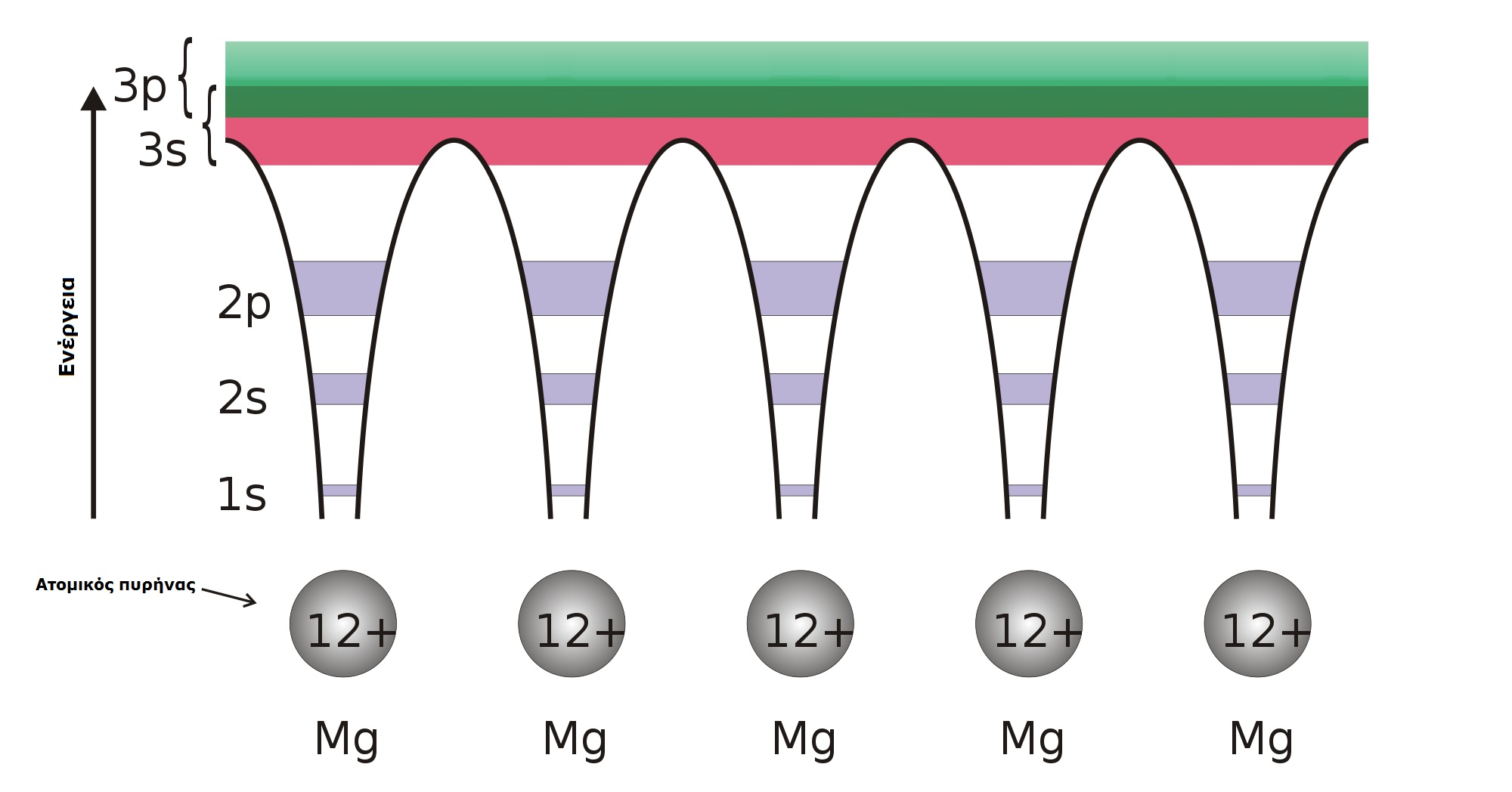 Energy bands in Mg.